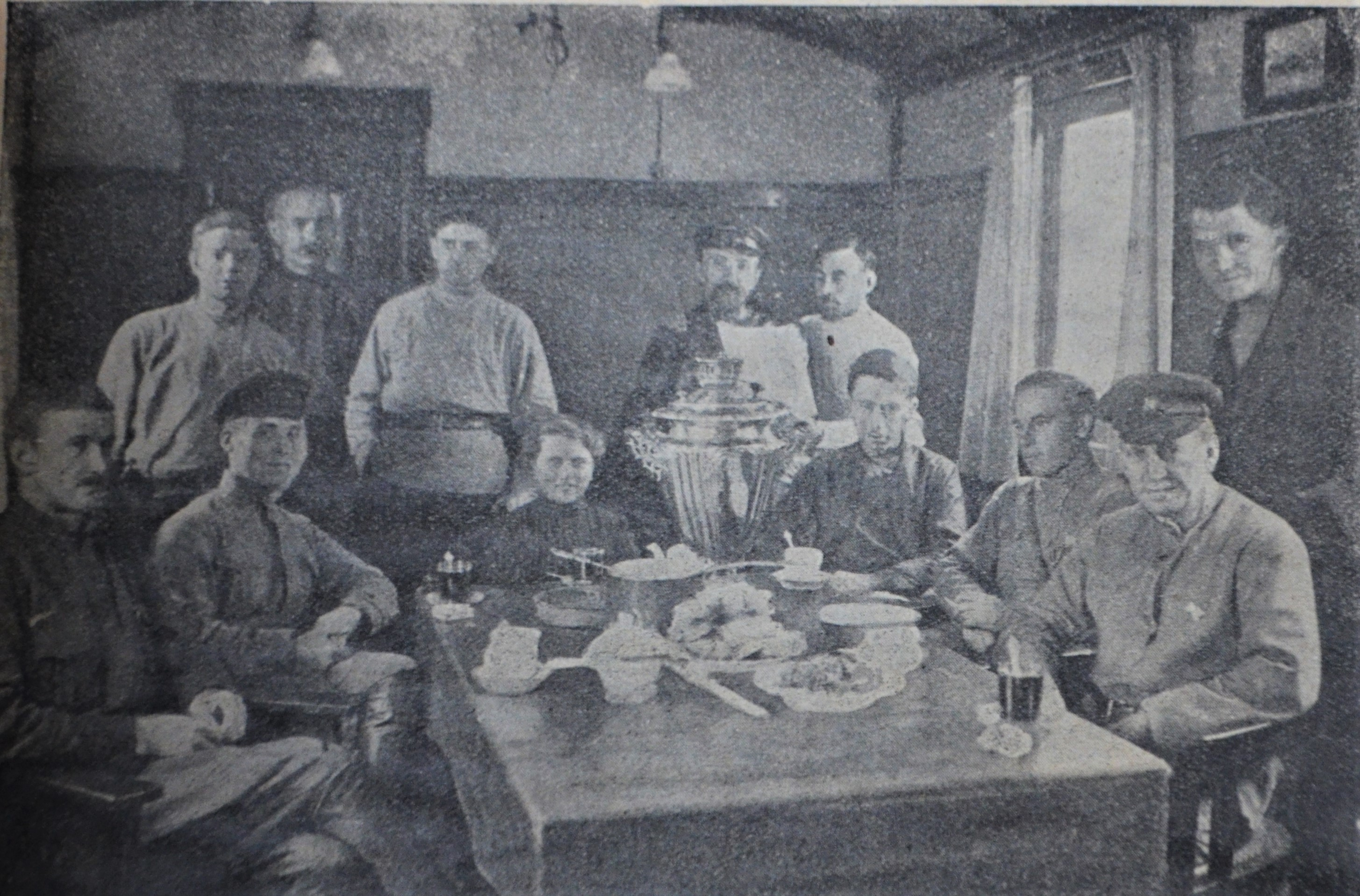 Trip of Christian Rakovsky in Ukraine 1920. At the time, his official position is Chairman of the Council of People's Commissars (Prime Minister) of the Ukrainian SSR.